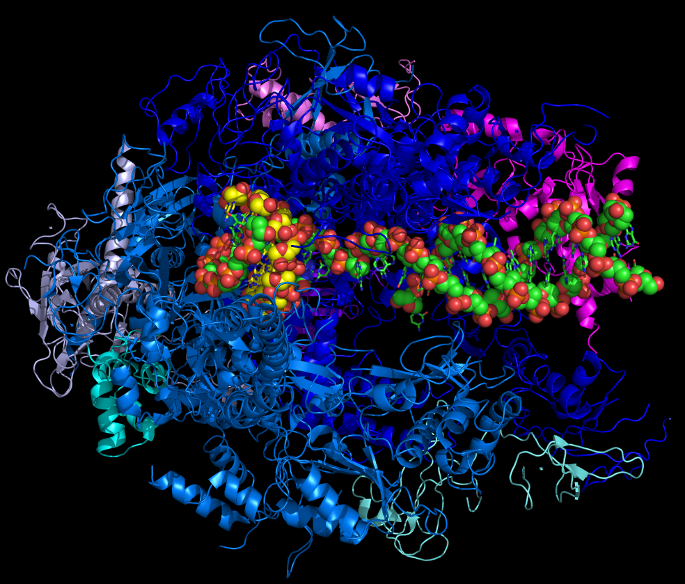 RNA polymerase II structure complexed with template DNA (green) and RNA strand (yellow)